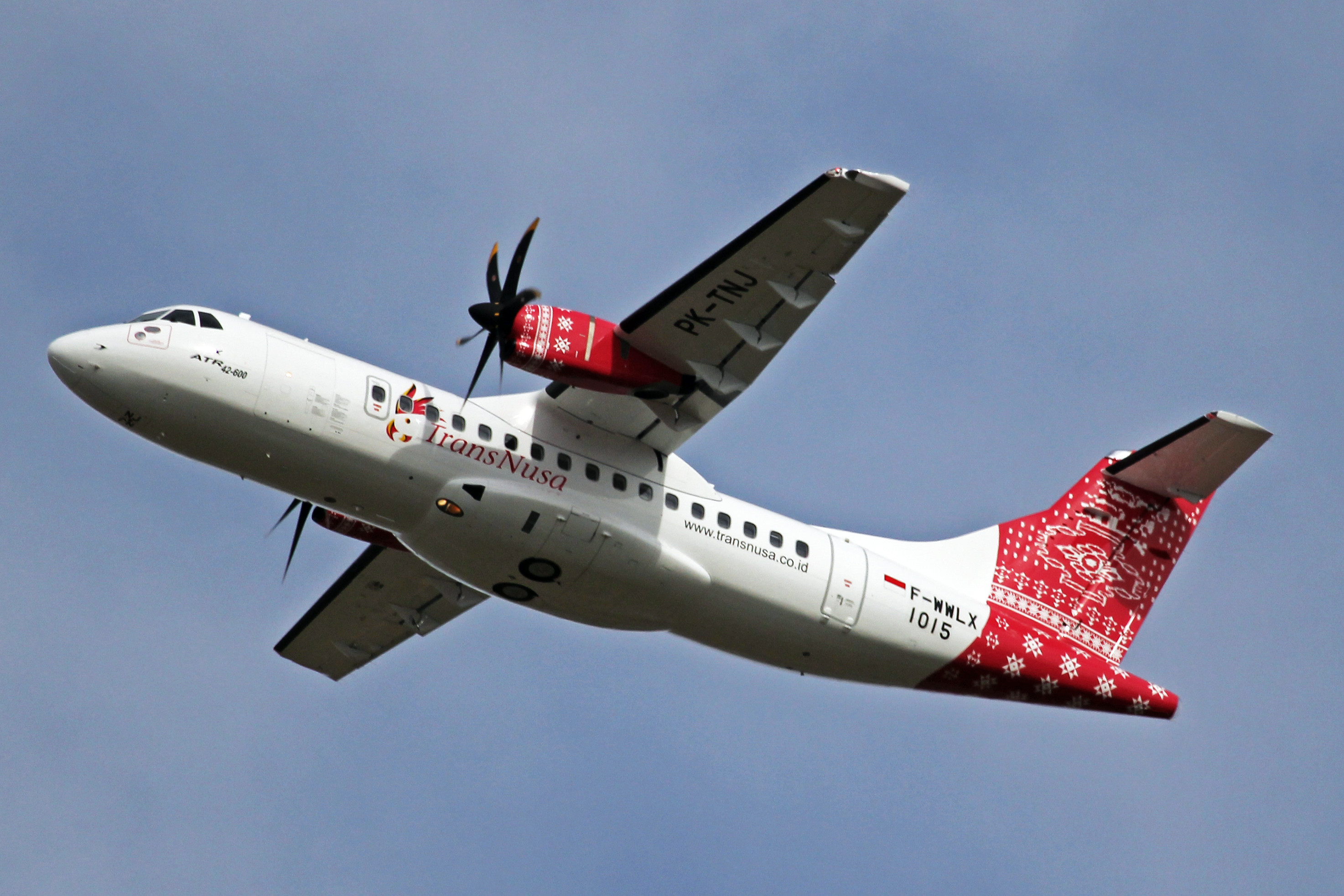 F-WWLX(1015 PK-TNJ) ATR42-512(600) TransNusa Airways TLS 22SEP14 Departing Toulouse on it's first flight. First flown with the ATR test registration F-WWLX, this aircraft was delivered to TransNusa Airways as PK-TNJ in Sep-14. It was written off in a ground collision at Jakarta-HLP, Indonesia on 04-Apr-16... See note below... The aircraft remains were noted still at Jakarta-HLP in Nov-16. (Updated Jan-17). Note: The aircraft was hit by a Batik Air B737-8GP/W, PK-LBS, in a ground collision while the B737 was taking off(!), the vertical stabiliser and the left wing outboard of the engine were sliced off, while the B737 lost a wingtip & winglet. The B737 was repaired and returned to service.